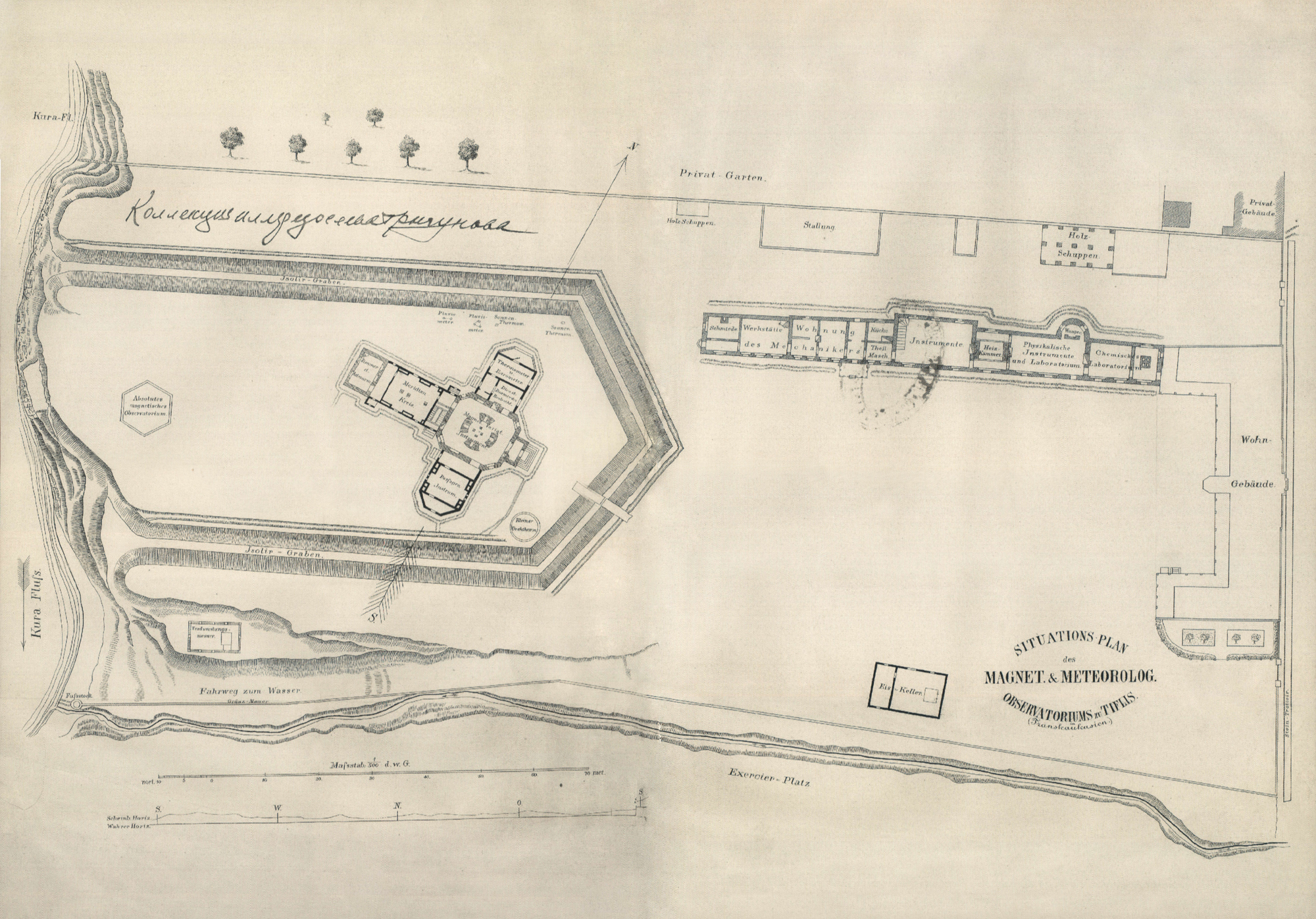 Layout plan of the Kukia observatory instrumentally surveyed and drawn by Heinrich Kiefer.